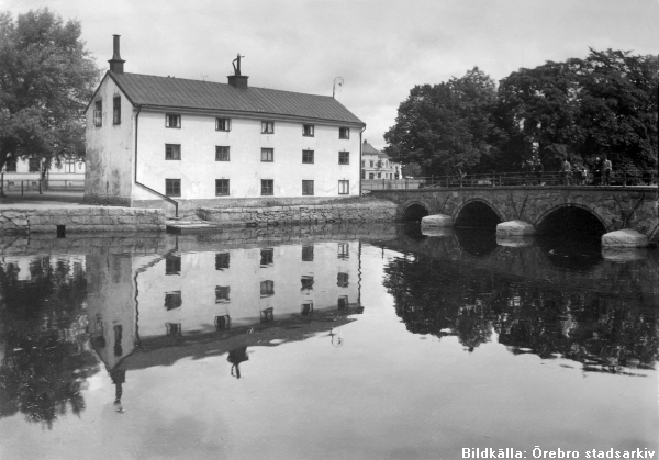 Arbetshuset ("The Work House") Örebro Sweden